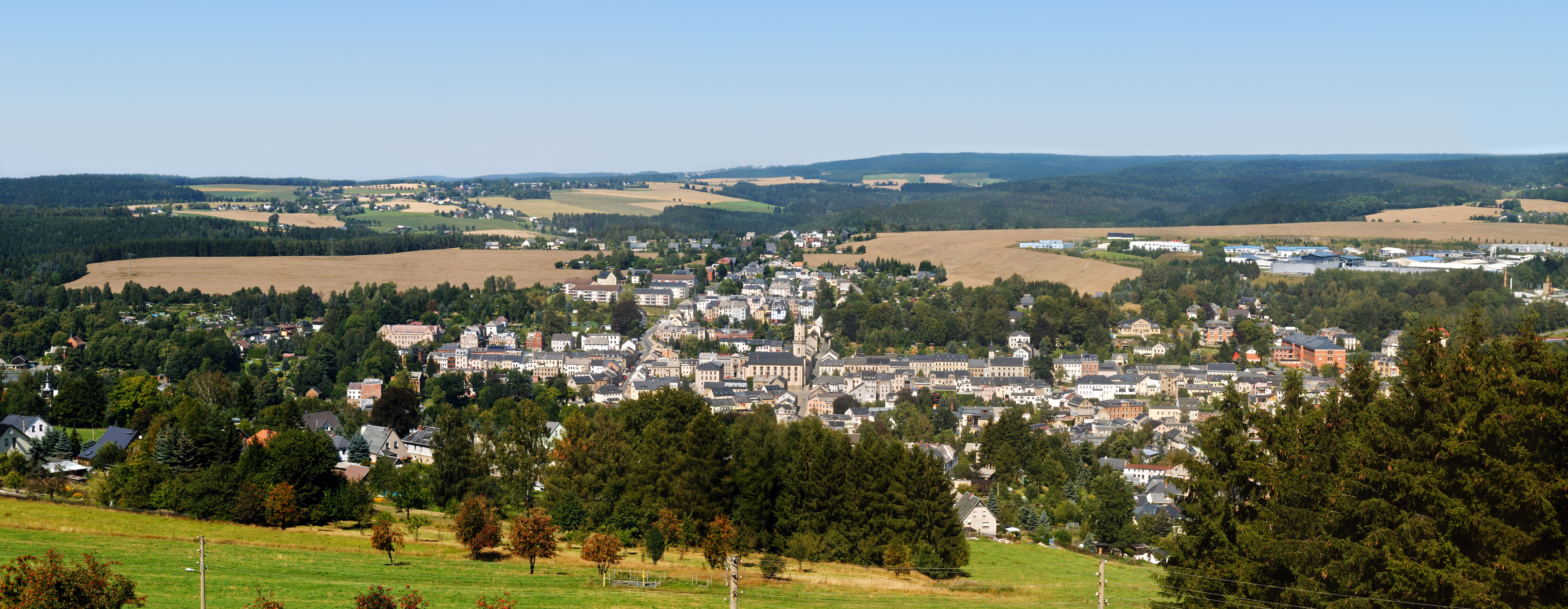 This image shows Markneukirchen as viewn from the Bismarck tower. It is a six segment panoramic image.